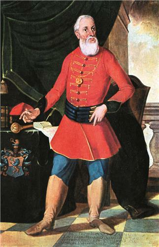 Portrait of noble Ivan Zakmardi